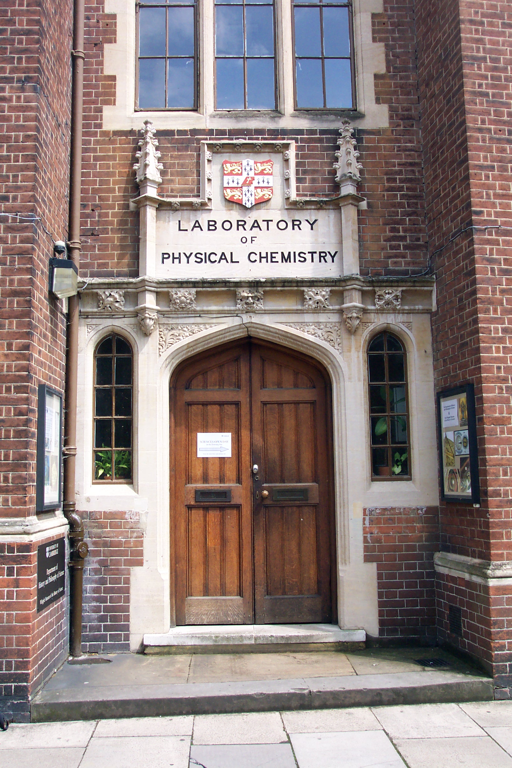 Old Physical Chemistry Laboratory Cambridge. Coat of arms of Cambridge University